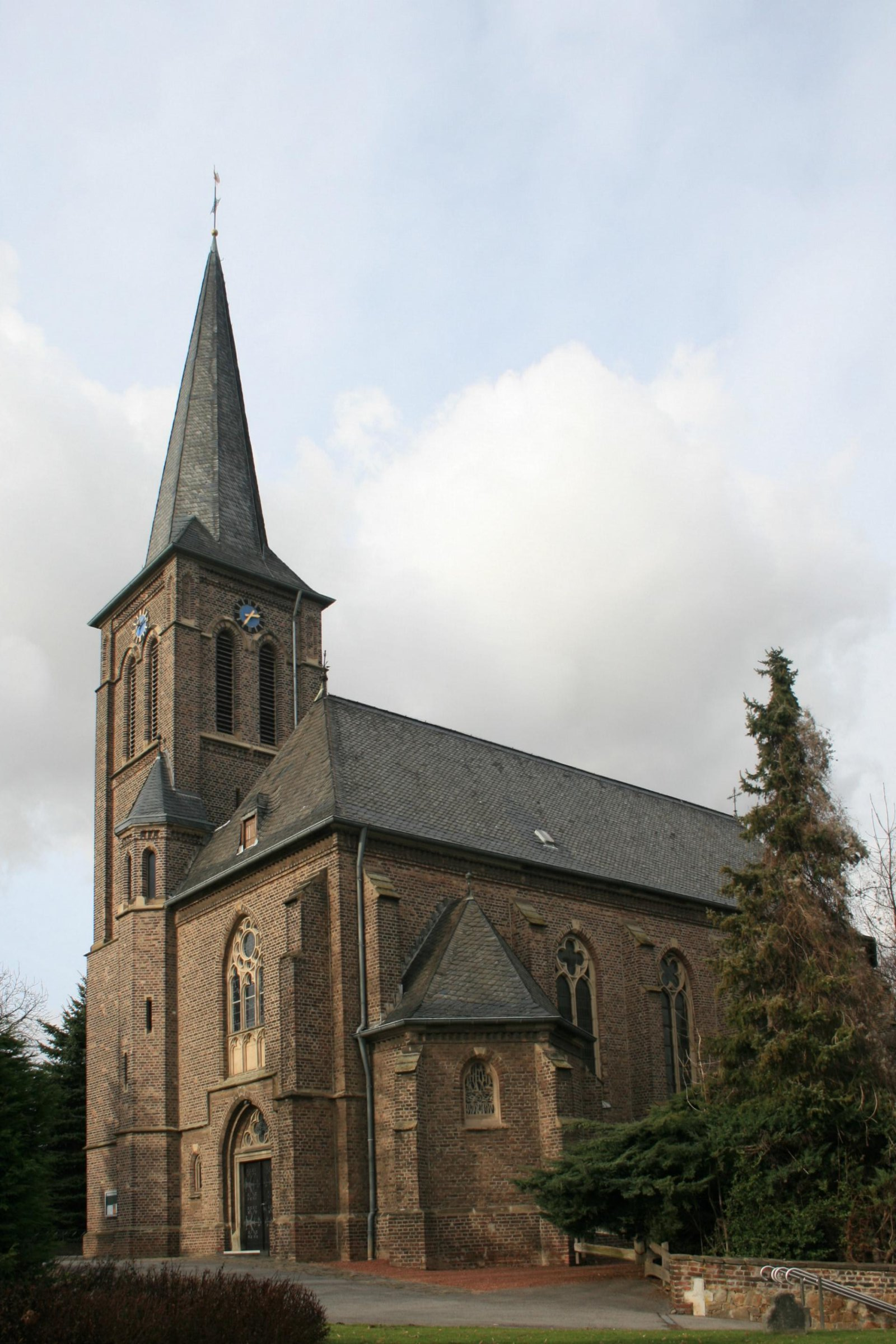 Cultural heritage monument No. 8 in Inden